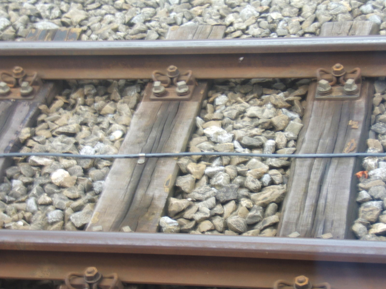 I eated this railway part